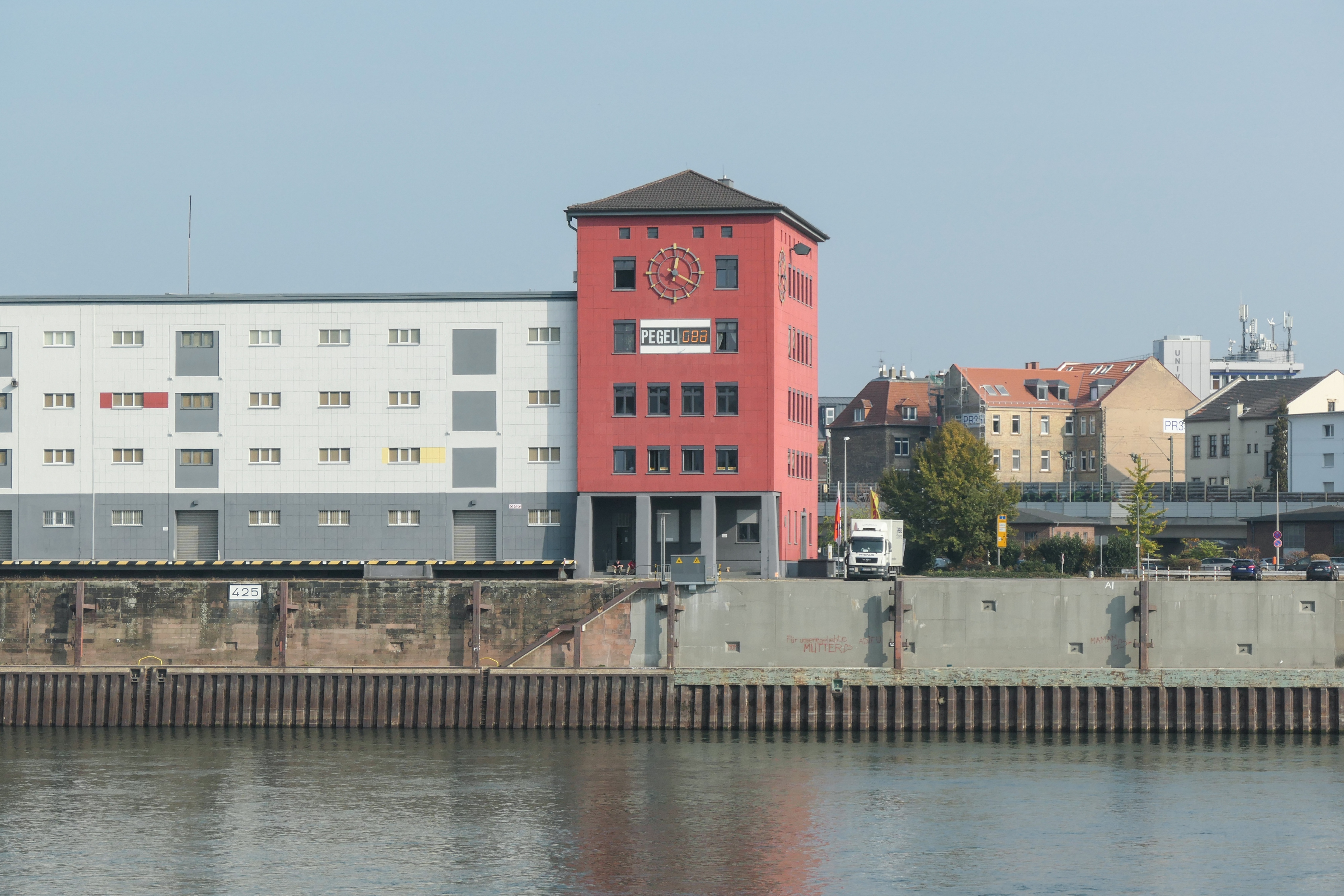 Rhine level marker Mannheim, water level at 0.88 m